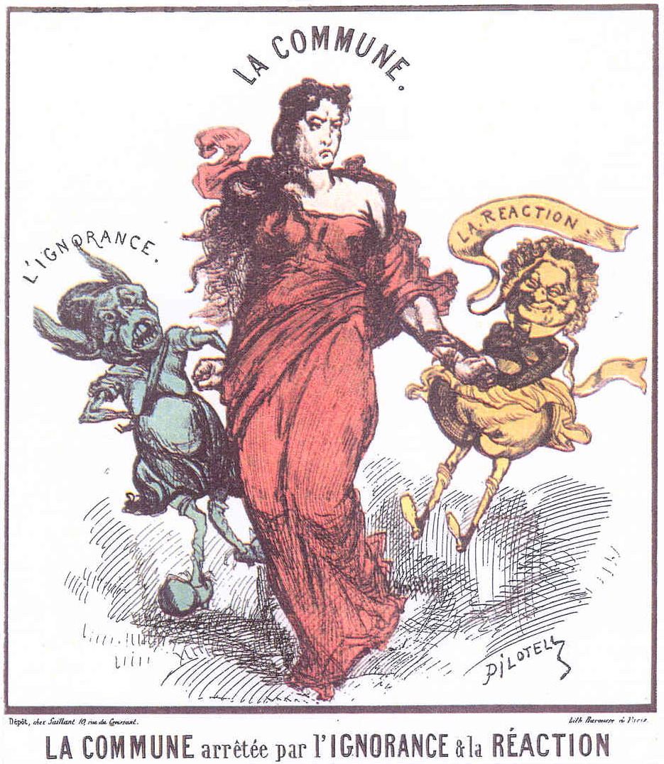 La Commune arretee par l'Ignorance & la Reaction, Satirical sketch by Georges Pilotell